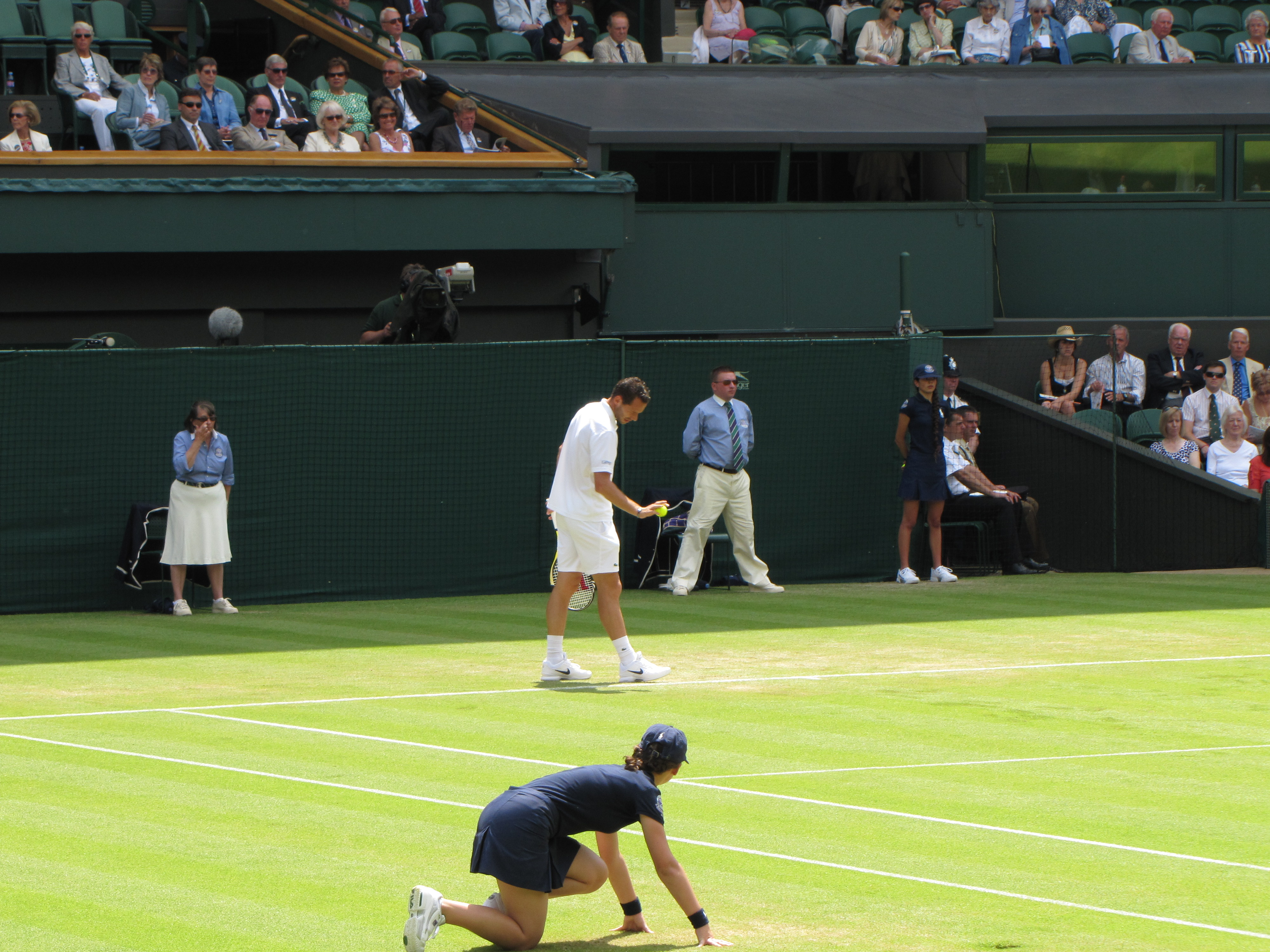 Michaël Llodra, 2010 Wimbledon Championships